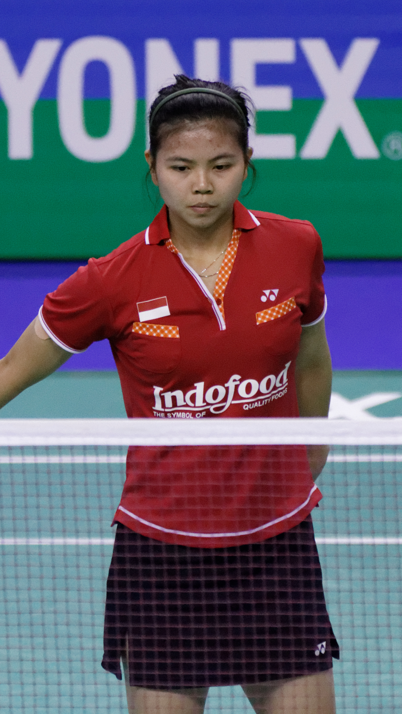 Greysia Polii, an Indonesian badminton player.